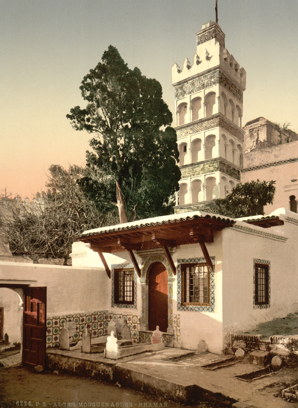 This photochrome print is from “Views of People and Sites in Algeria” in the catalog of the Detroit Photographic Company. It depicts the Sidi Abder-Rahman [Abdul Rahman, Abdel Rahman, Abdurrahman] Mosque in Algiers, Algeria, circa 1899. According to Cook’s Practical Guide to Algiers, Algeria, and Tunisia (1904), “With the exception of the Djama el Kebir…this is the oldest religious building in Algiers…. The marabout [popular saint] Abd er Rahman et Thalebi was born in 1387 and died in 1471. The mosque was built between these dates and contains his tomb, over which are hung silk banners, ostrich eggs, etc., and on which lights are kept burning.” Auguste Renoir painted a very similar scene of the Abder-Rahman mosque in 1882.